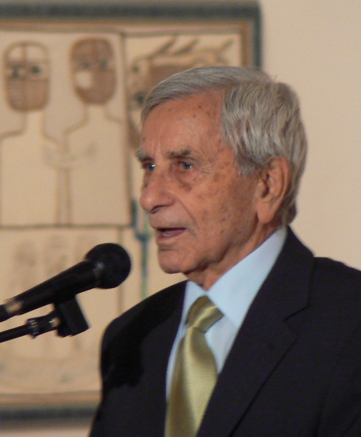 Bulgarian journalist Petko Bocharov, on the literary reading of his book "Faces and fates from three Bulgarias" in the Sofia Town Gallery on November 4, 2010